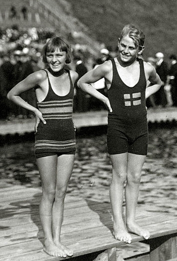 Sport, 1920 Olympic Games in Antwerp, Belgium, pic: 1920, The two youngest competitors, Aileen Riggin, USA, was 14 years old when she won the Womens Springboard Diving Gold medal, and right, Nils Skoglund, Sweden, who was just 13 years old when he gained a Silver medal in the now discontinued Plain High Diving